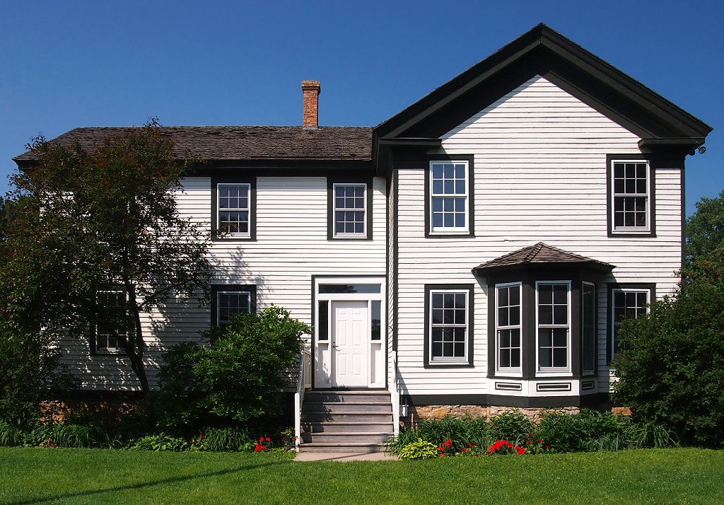 Banfill Tavern (now Banfill-Locke Center for the Arts), Fridley, Minnesota, USA